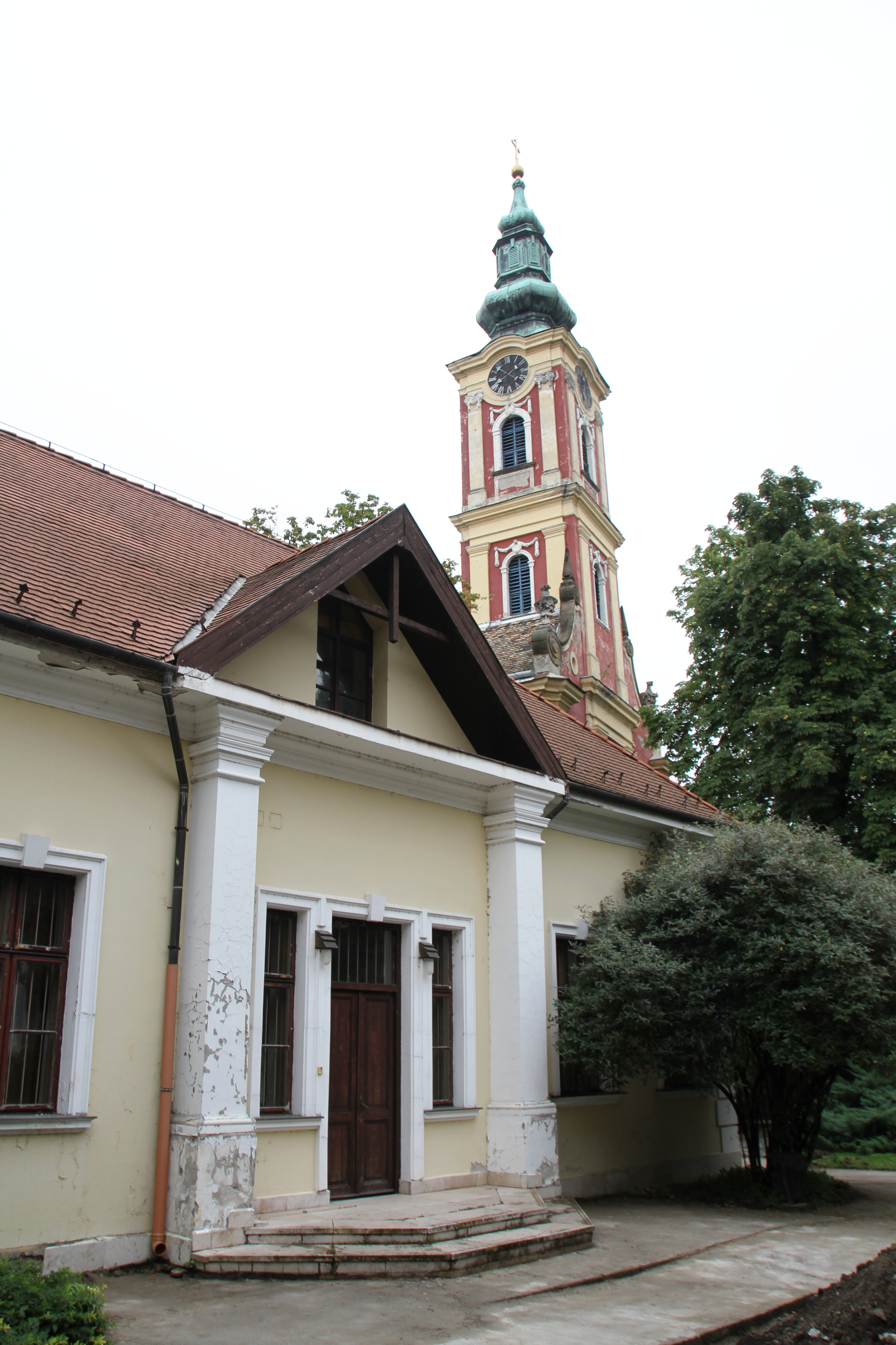 Museum of the Serbian Church in Szentendre, Hungary